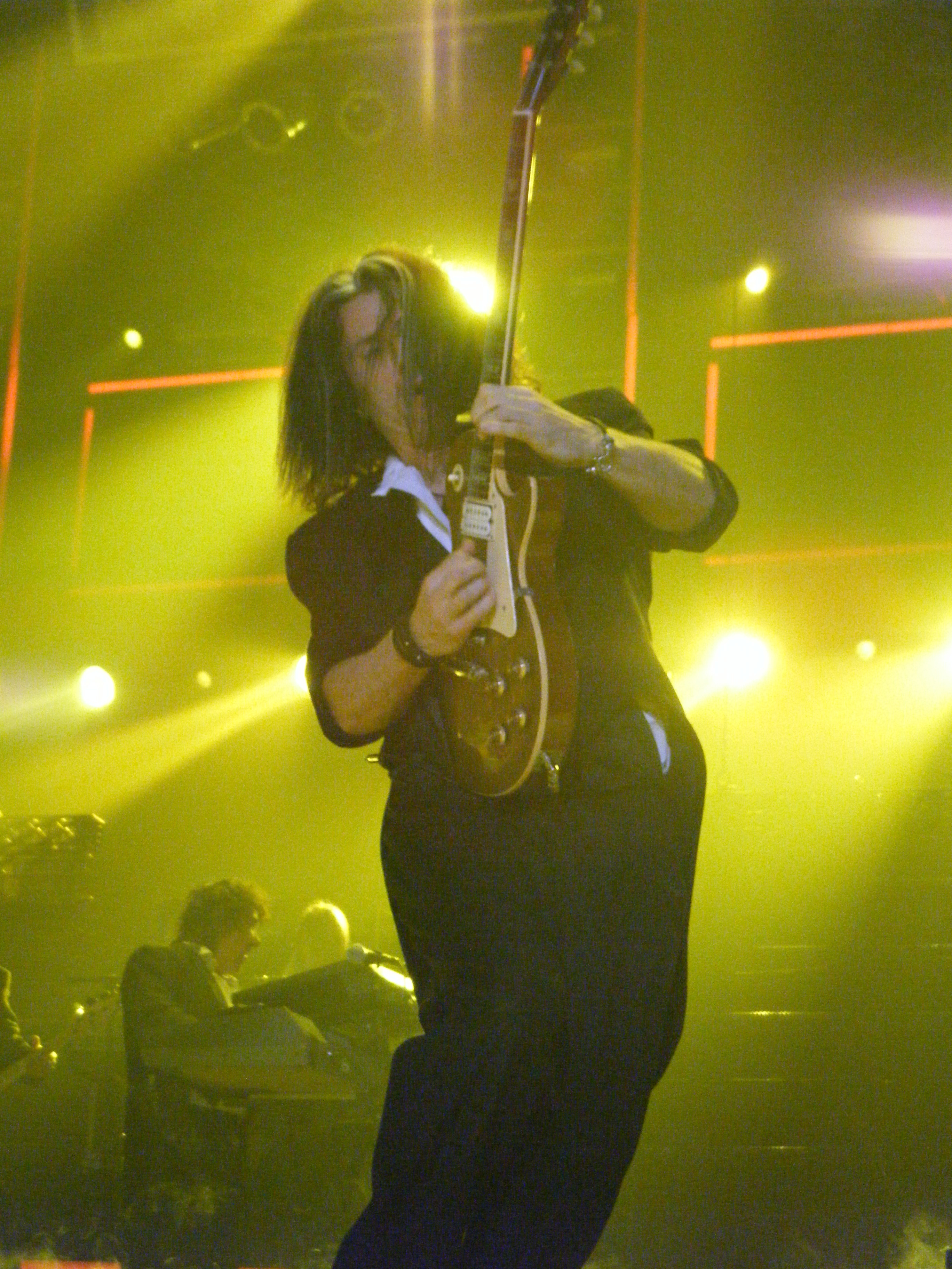 Alex Skolnick rockin on tour with the Trans-Siberian Orchestra in the 2009 Greensboro show.